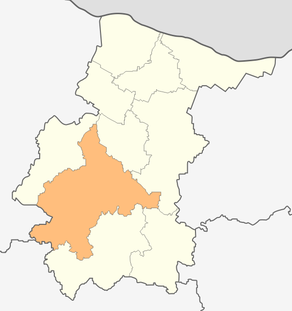 Map of Vratsa municipality, Vratsa Province